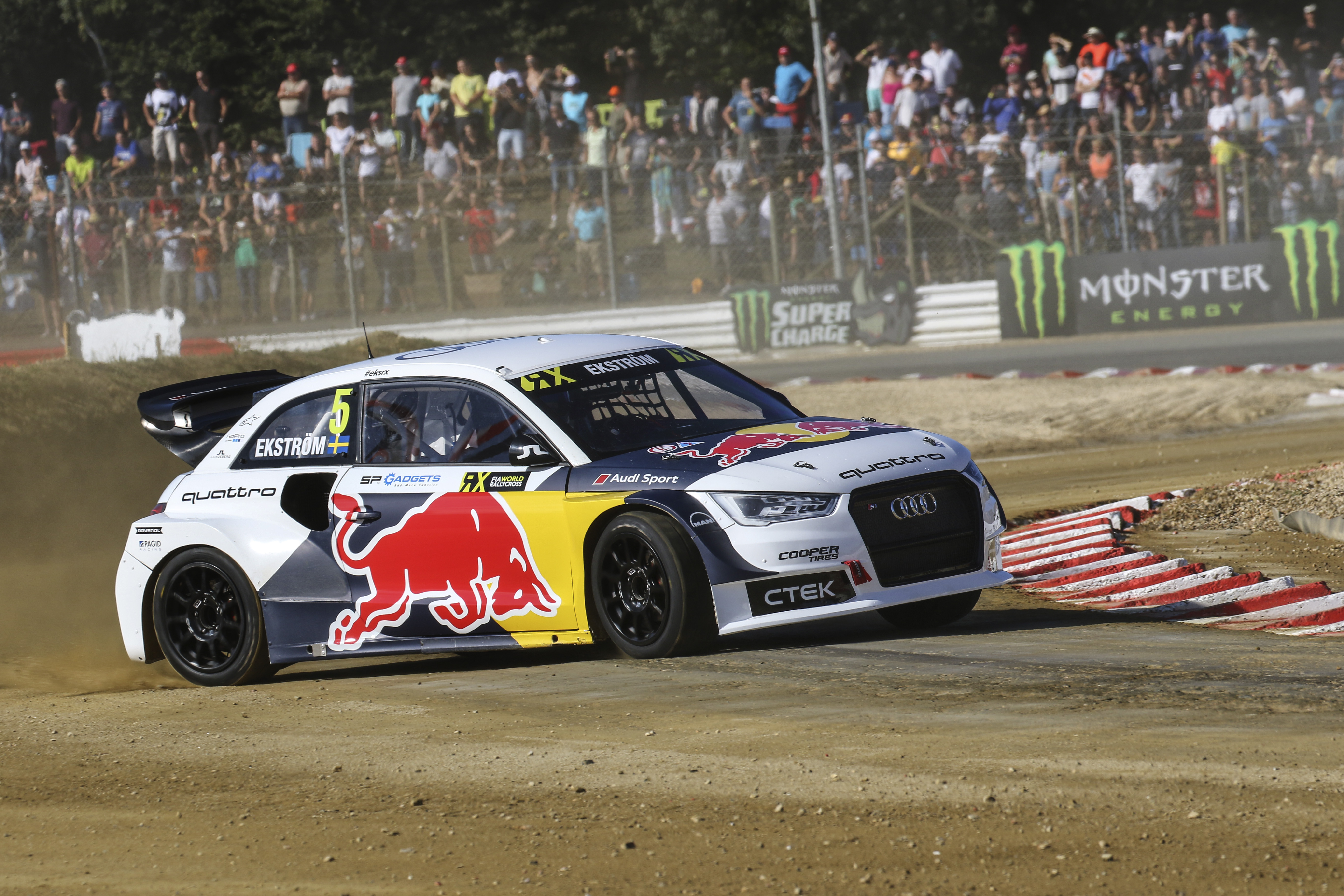 2016 FIA Euro RX Rallycross Championship / Round 08, Loheac, France, September 2-4 2016 // Worldwide Copyright:Tony Welam/EKS/McKlein